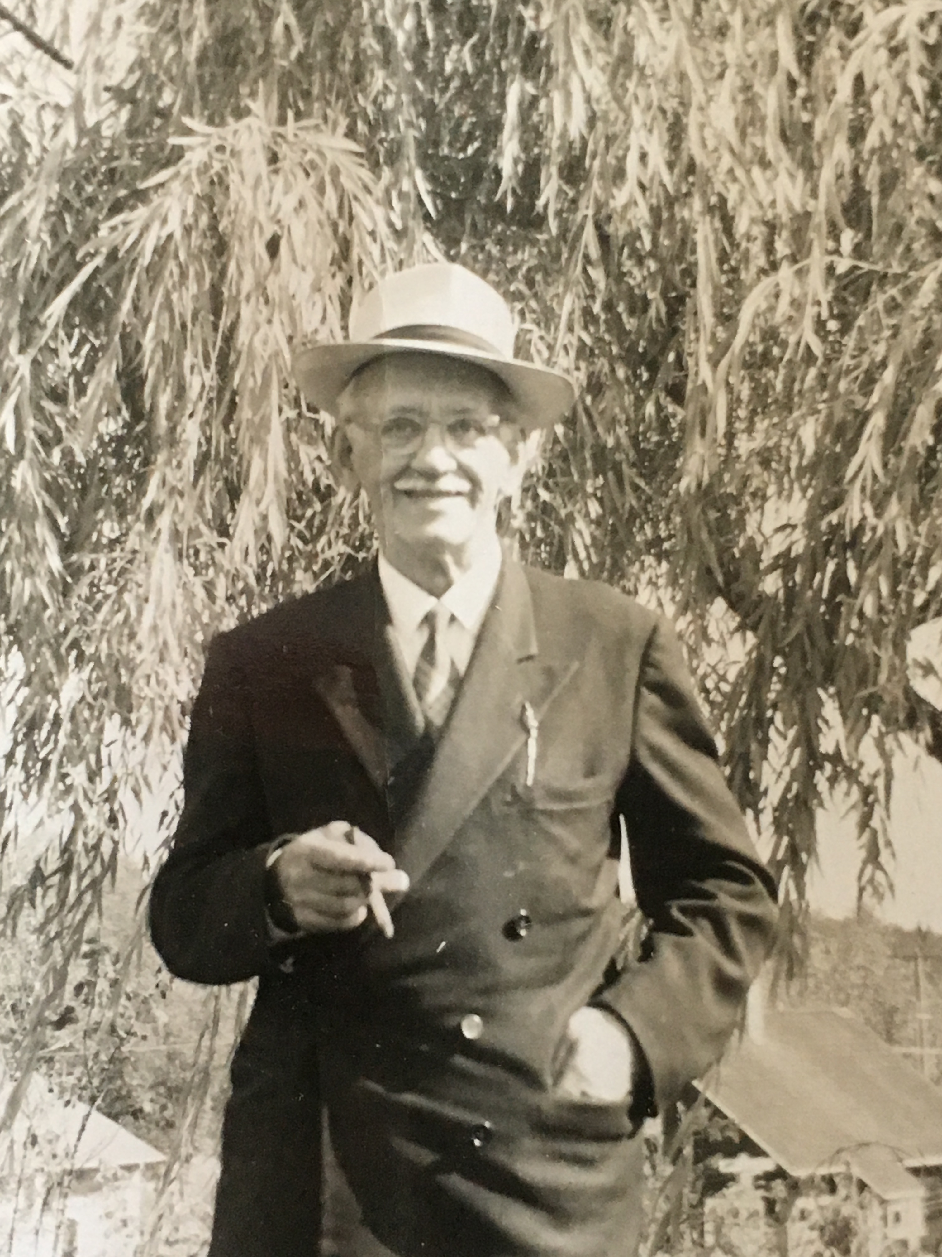 Photo taken of Charles Thorson circa 1964. The picture is taken in the yard of Gladys Longton, his landlord, in Haney B.C. Canada. He was always very well dressed.